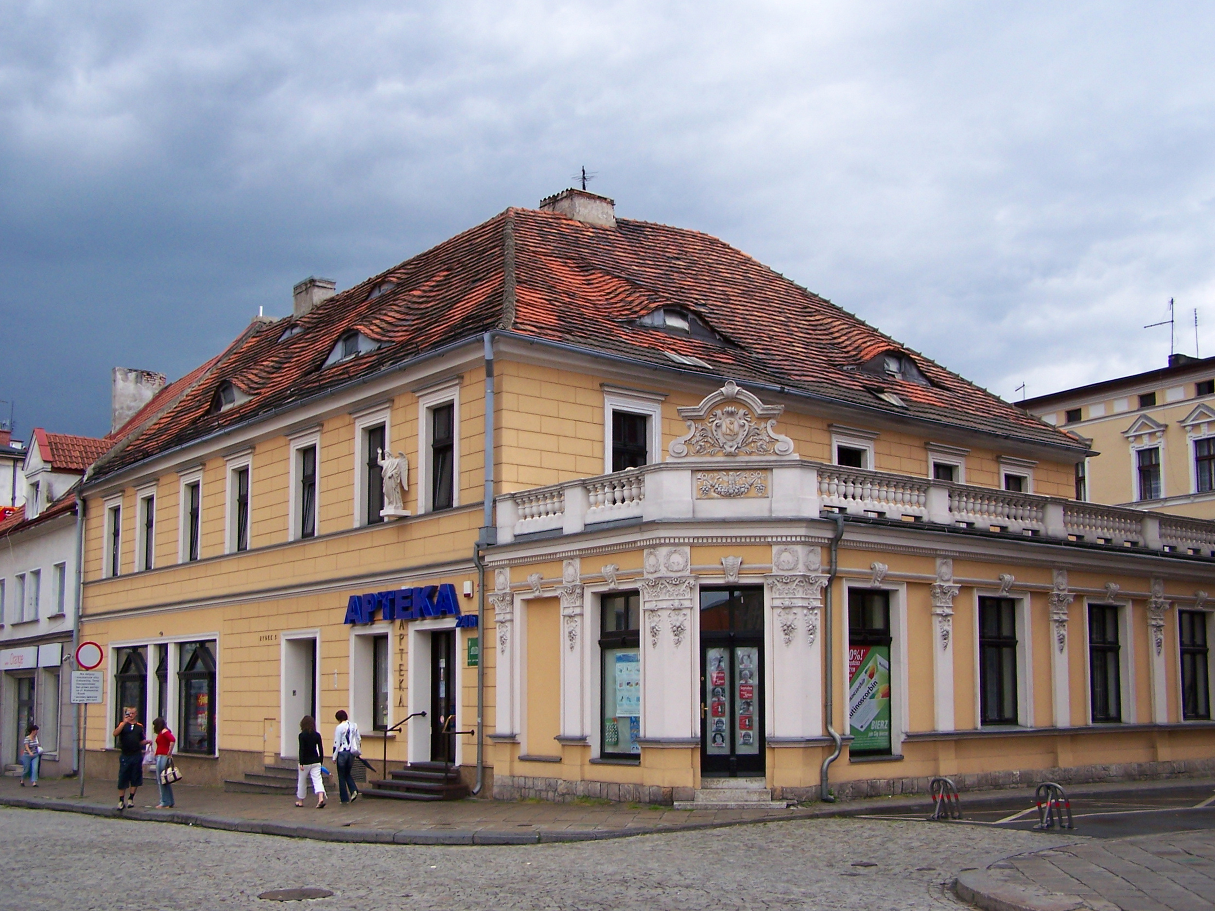 Market Square in Tarnowskie Góry (Poland).